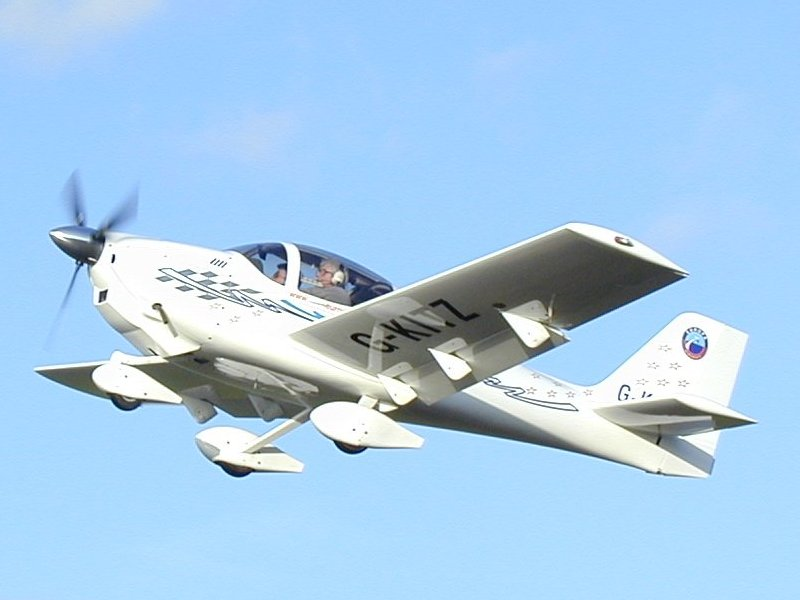 Europa XS taken near the Europa factory